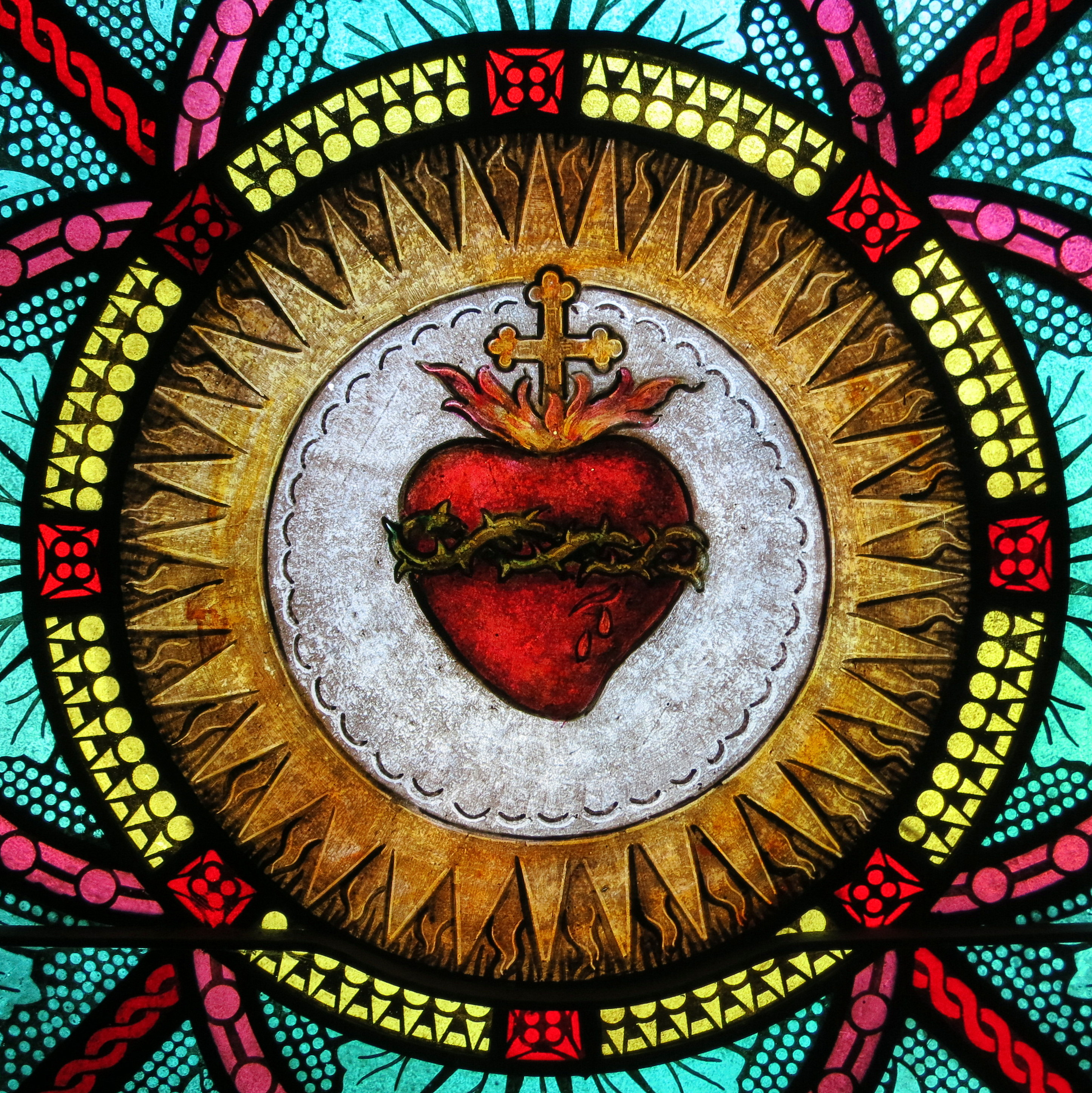 All Saints Catholic Church (St. Peters, Missouri) - stained glass, sacristy, Sacred Heart detail